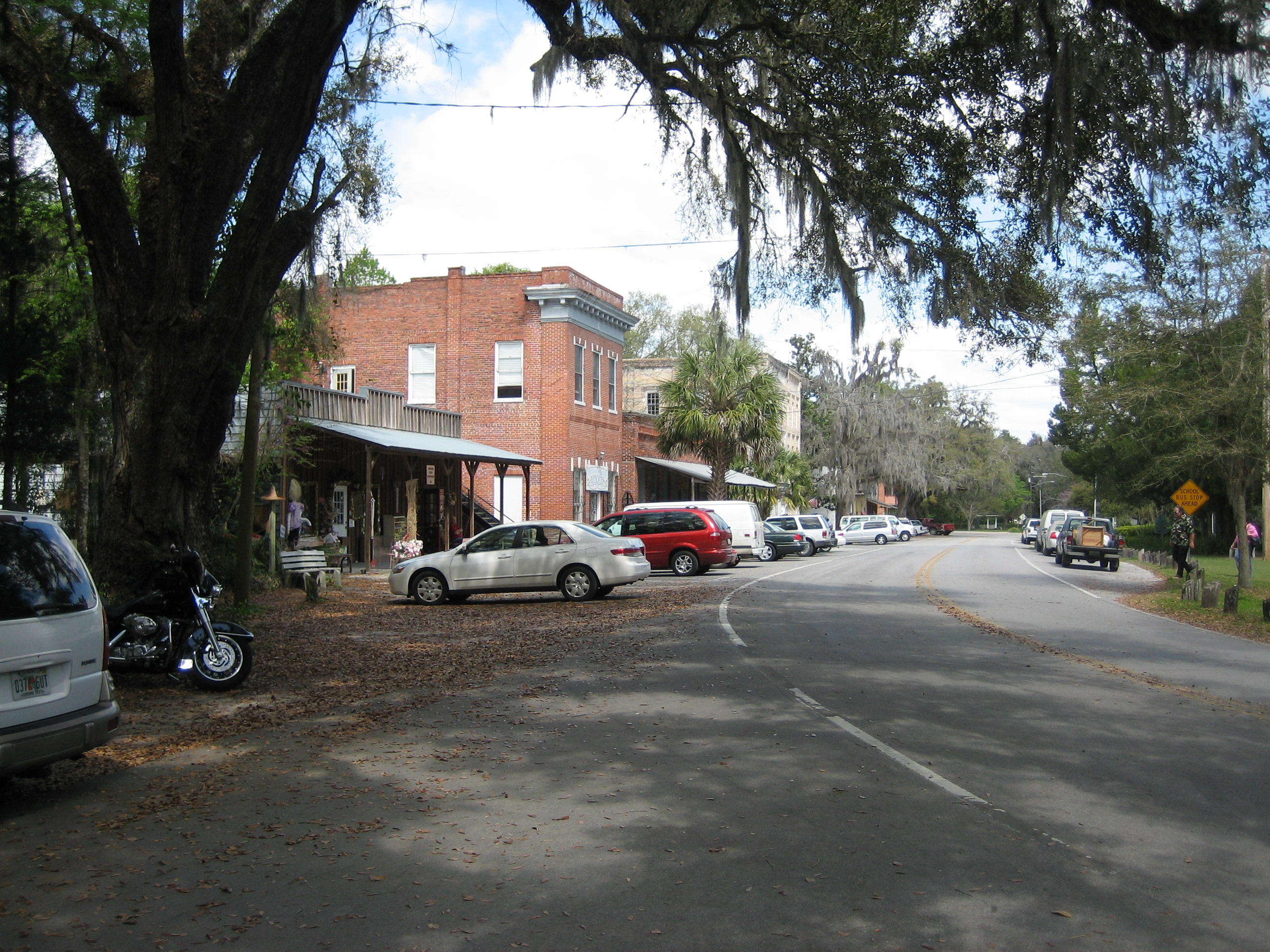 Old town of Micanopy, Florida.